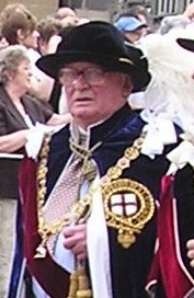 The 4th Viscount Ridley wearing his robes as a Knight Companion of the Order of the Garter, in procession to St George's Chapel, Windsor Castle for the annual service of the Order of the Garter.